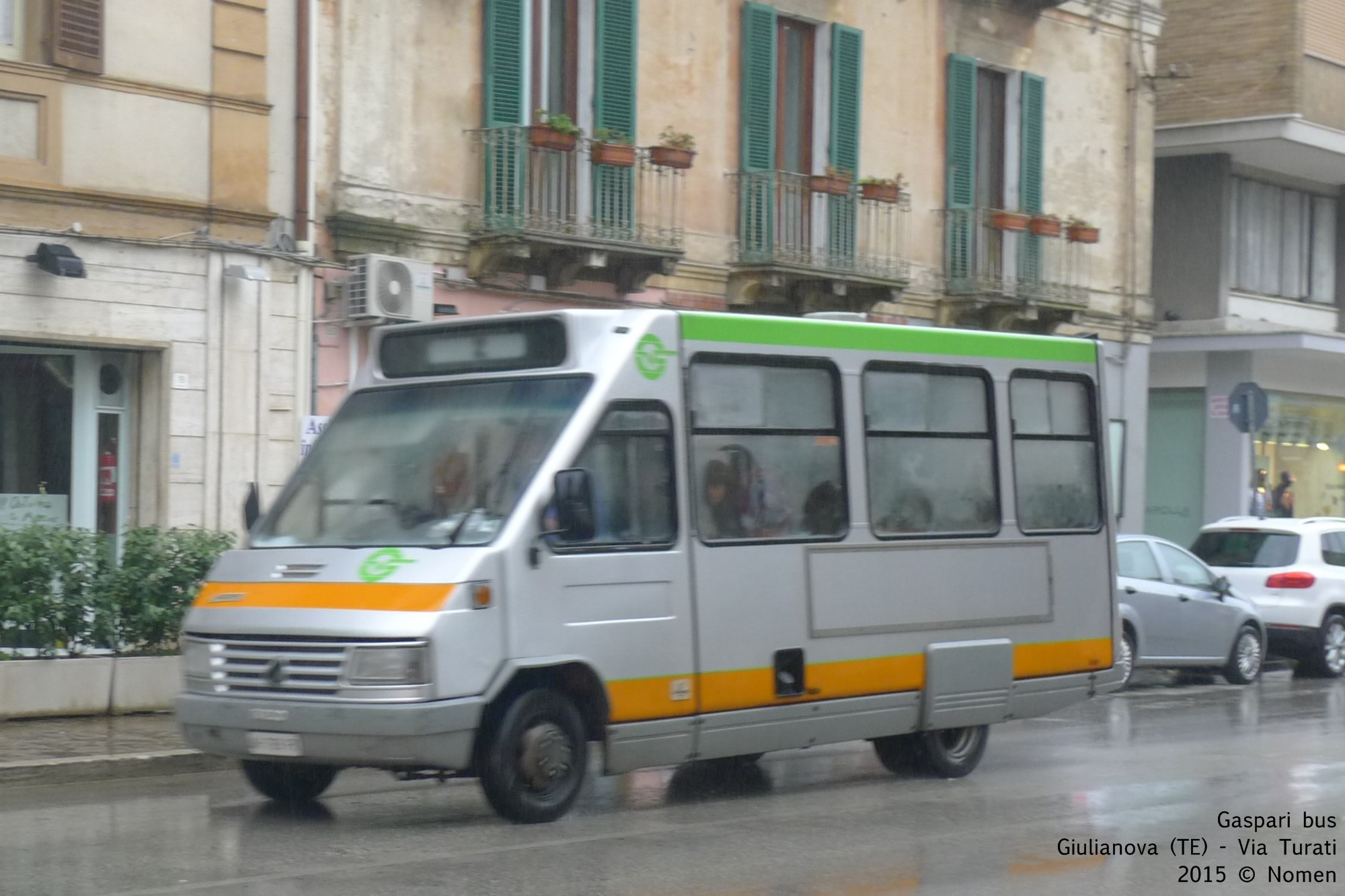 pollicino 35p